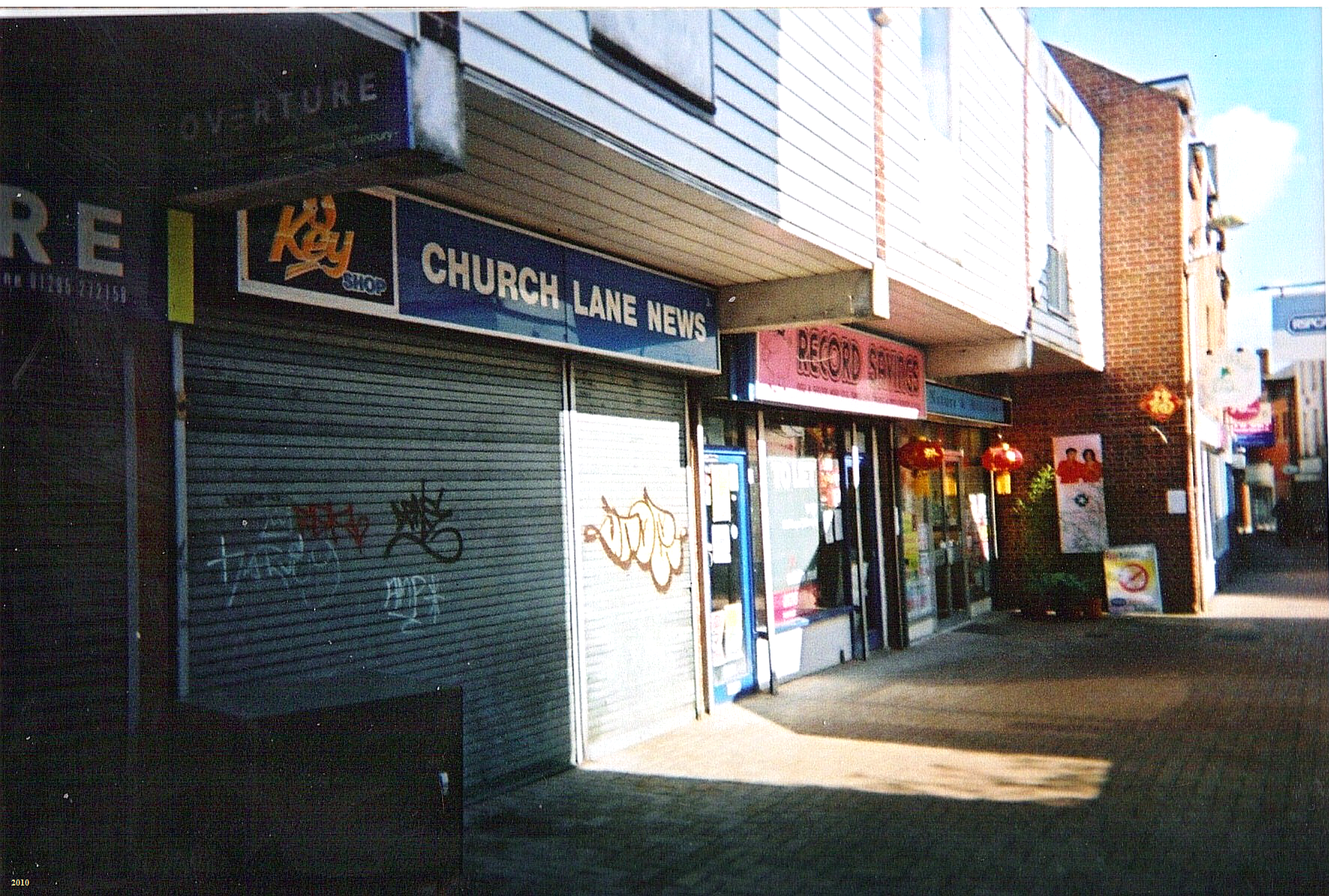 Banbury’s Church Lane. The news agents was closed in late 2009. It was bought out and was reopened in mid 2010.